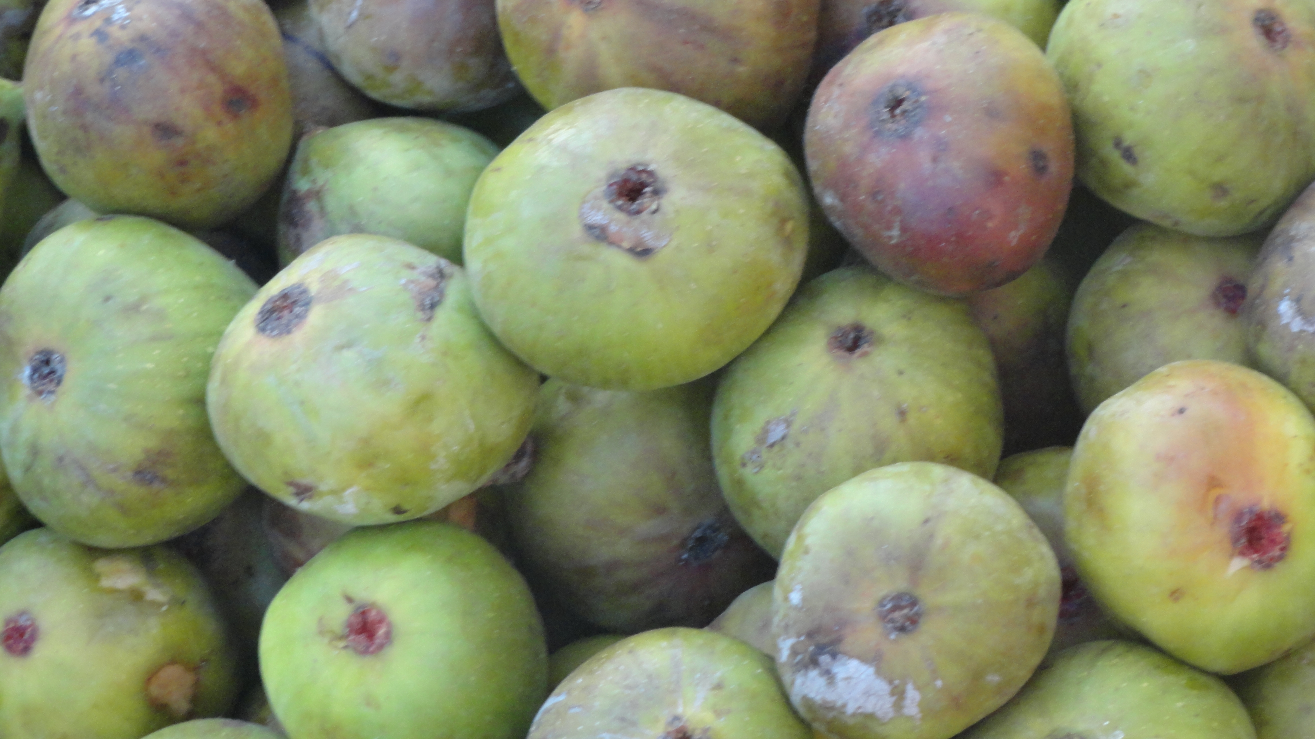 అత్తి పండ్లు